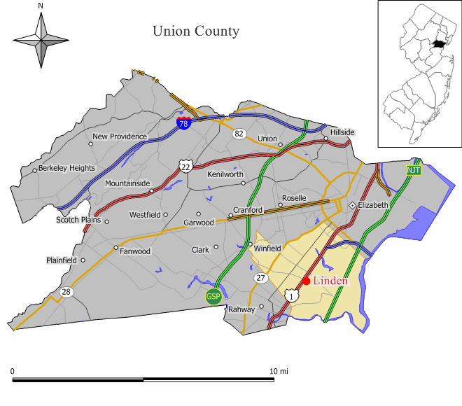 Source: Jim Irwin Original work by Jim Irwin, December 2005.